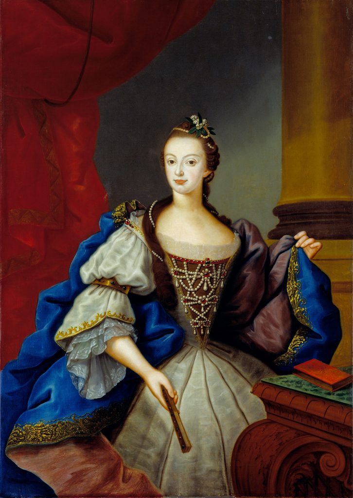 Portrait of Infanta Maria of Portugal (1734-1816)